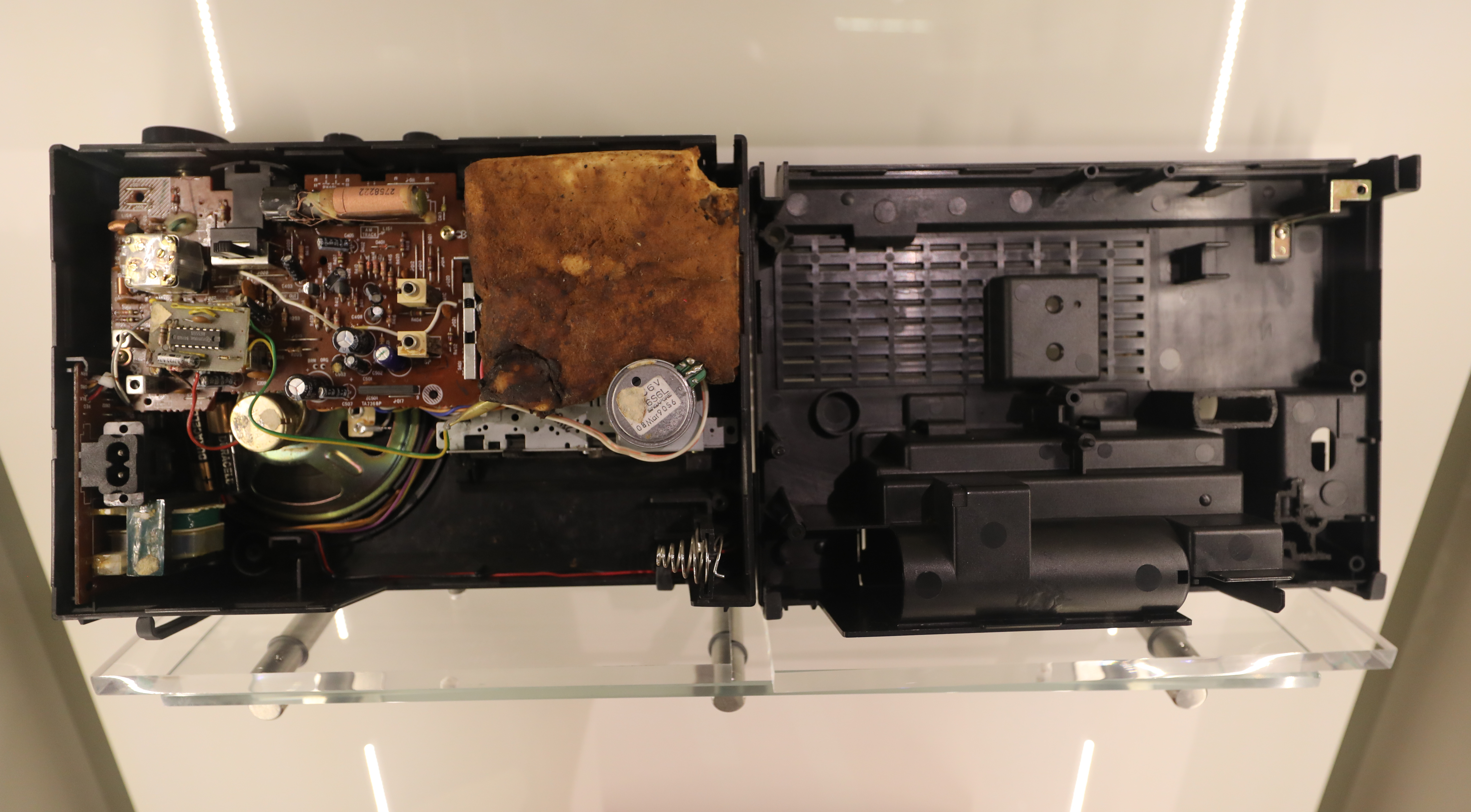 Photo of the fake bomb (the "explosives" are marzipan) created by Dr Jim Swire